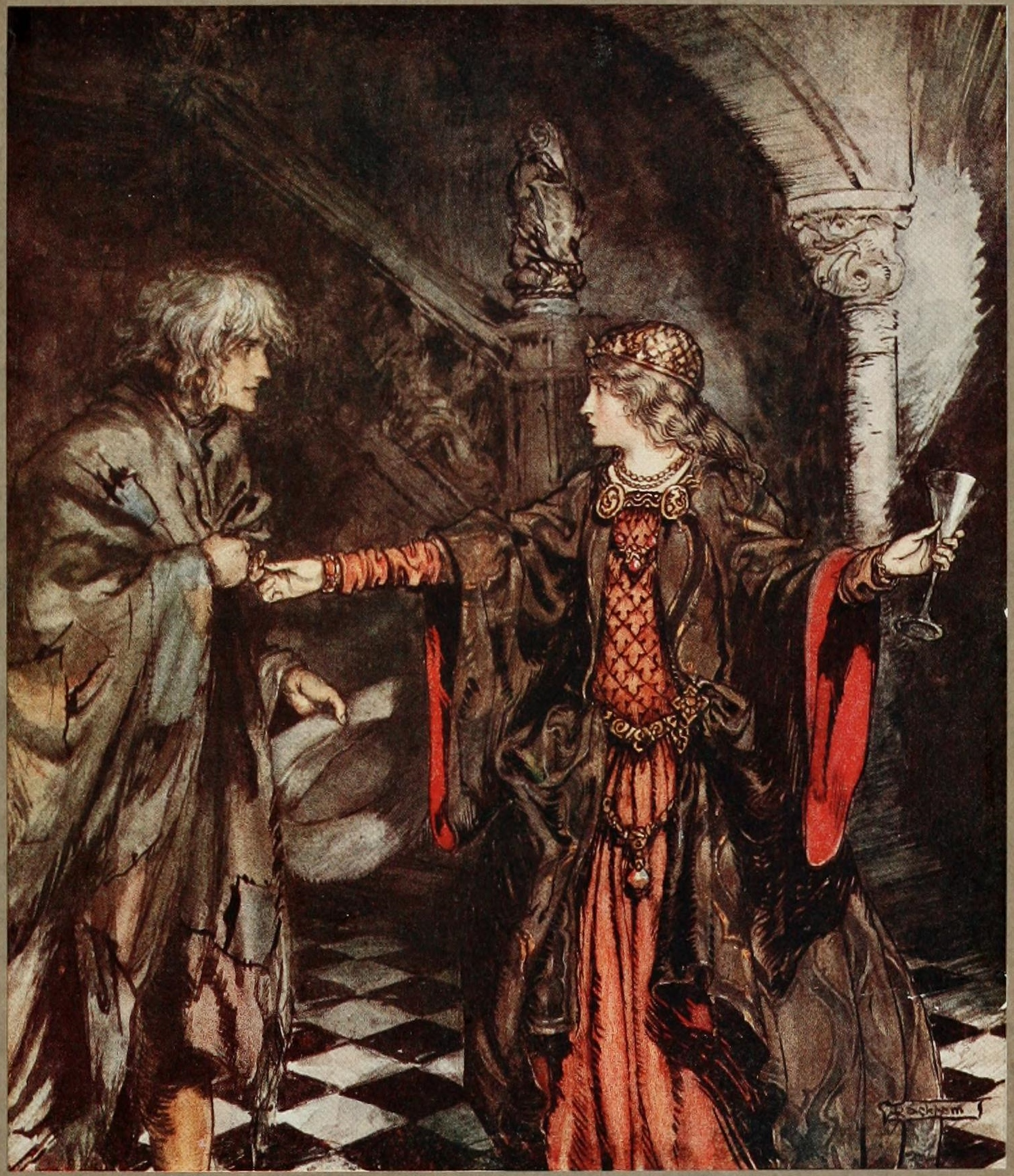 "Hynd Horn" [sic]. From Some British Ballads (1919), an illustrated collection of traditional tales. This illustration is from the traditional folk ballad "Hind Horn".